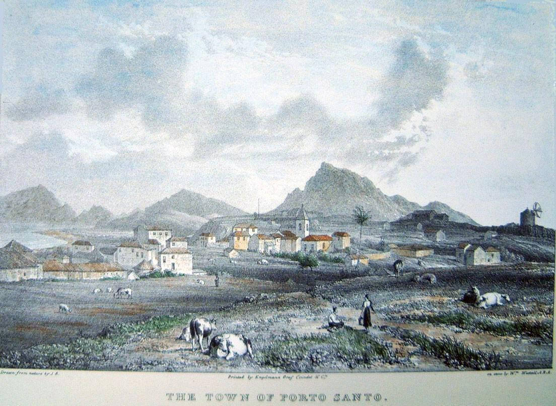 Westall, Nicholson, Harding e Nash, pub. in Views in the Madeiras, Londres, 1827. Funchal, ilha da Madeira.